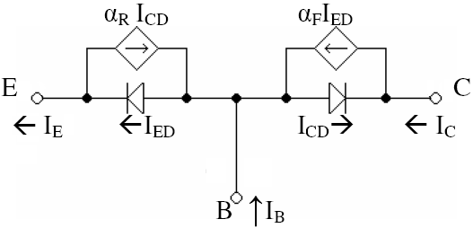 NOTE: The diagram has an error. The current through the Base-to-Collector diode should be ICD, not IED. Summary Drawn using "Klunky" and added the minor details using MS-WORD